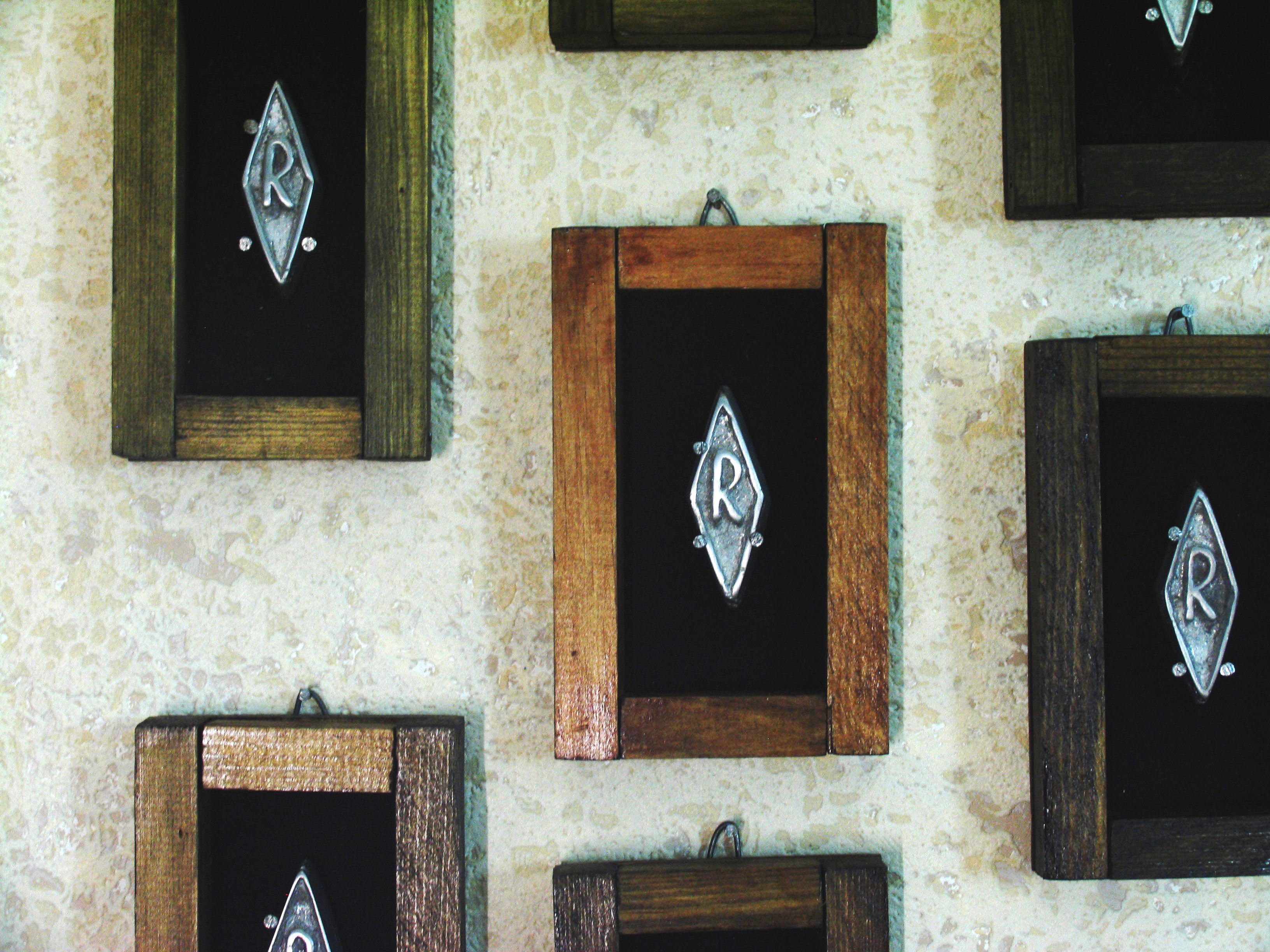 Roundelay commemoratives